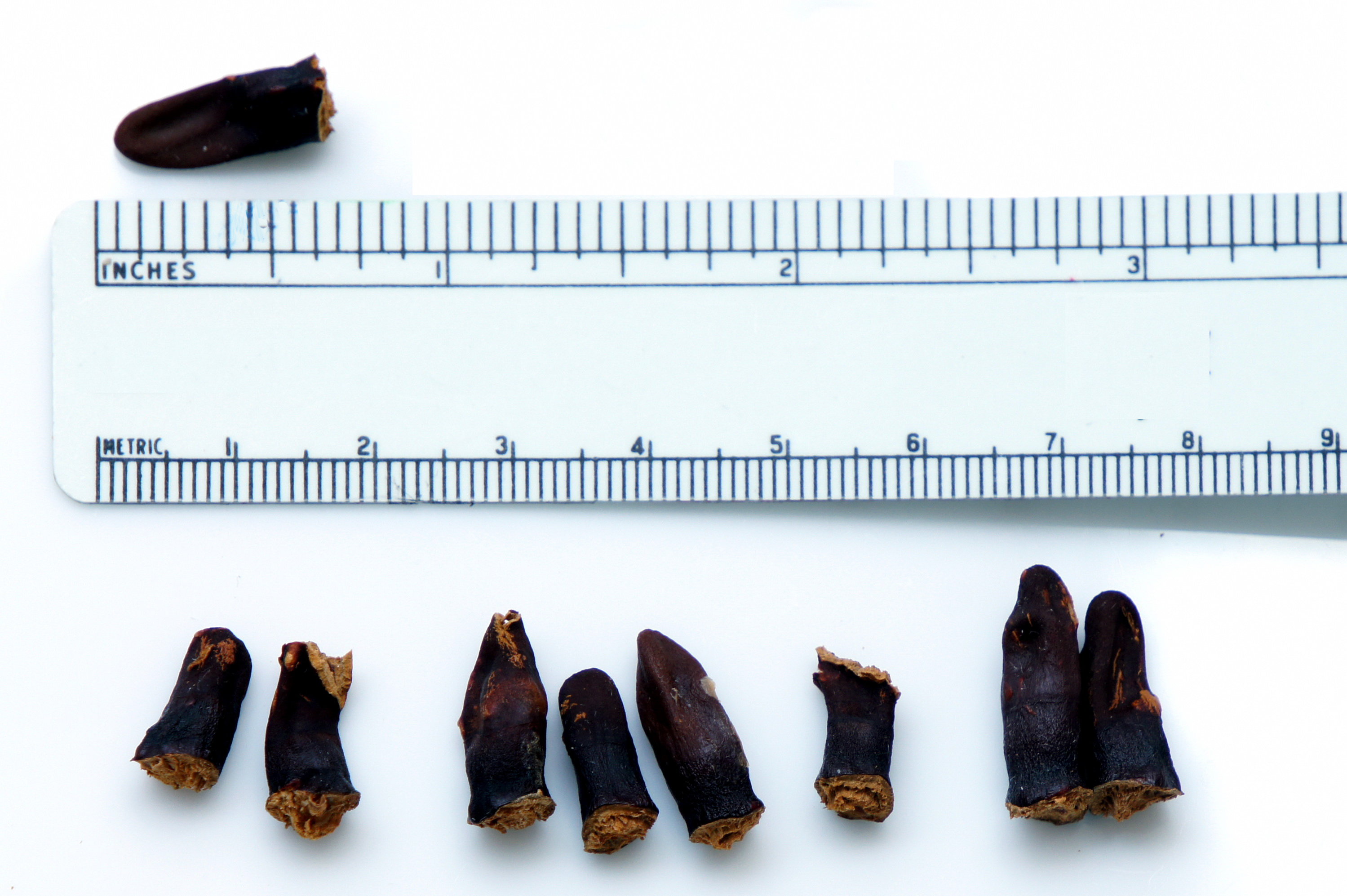 Seeds of Yu Her Pao Lychee